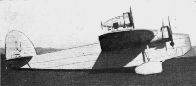 A German Dornier Do Y bomber on the ground.